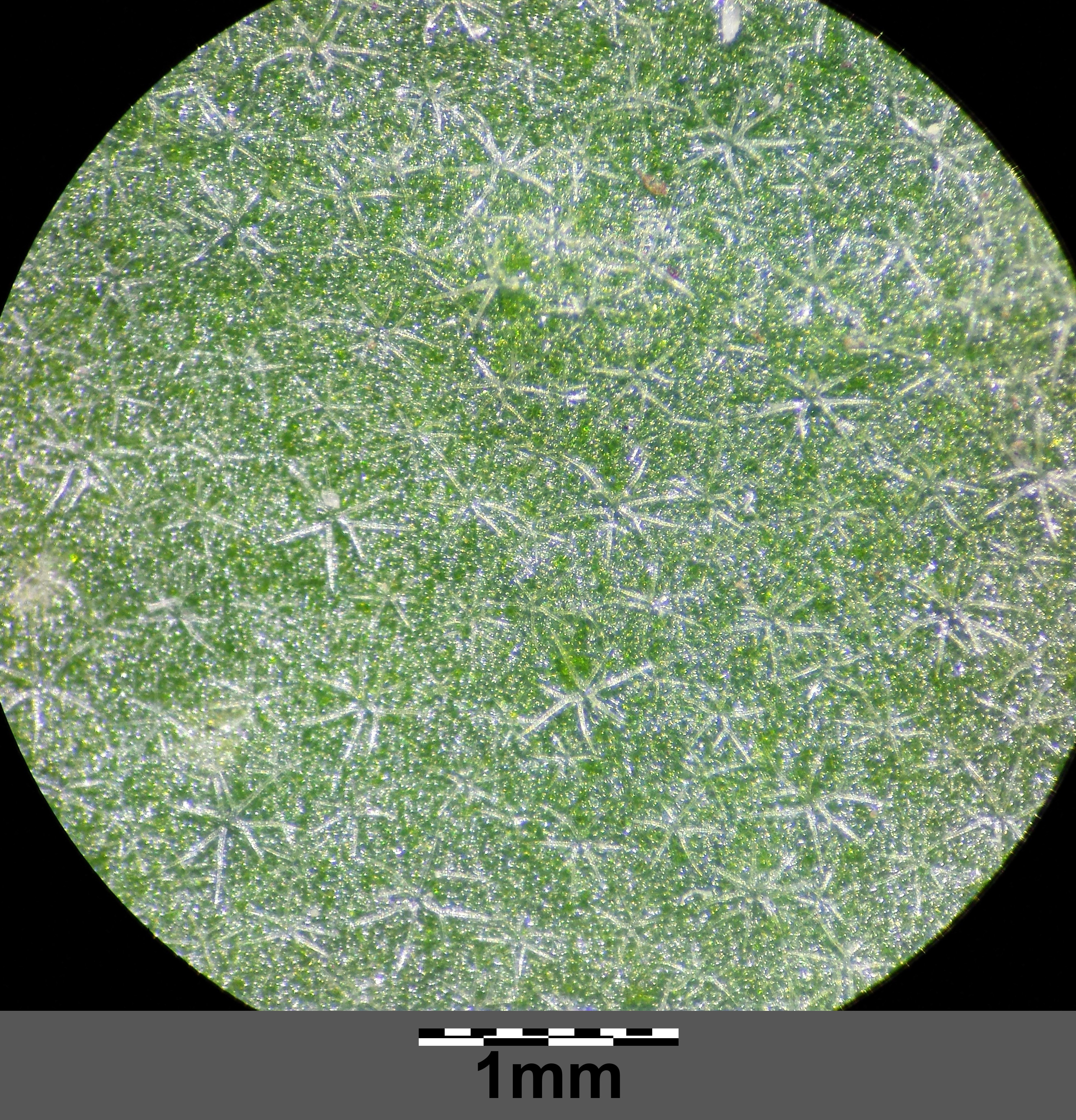 Leaf bottom side with stellar hairs Taxonym: Berteroa incana ss Fischer et al. EfÖLS 2008 ISBN 978-3-85474-187-9 Location: Floridsdorf/Leopoldau rail station, Vienna-Floridsdorf - ca. 160 m a.s.l. Habitat: ballast